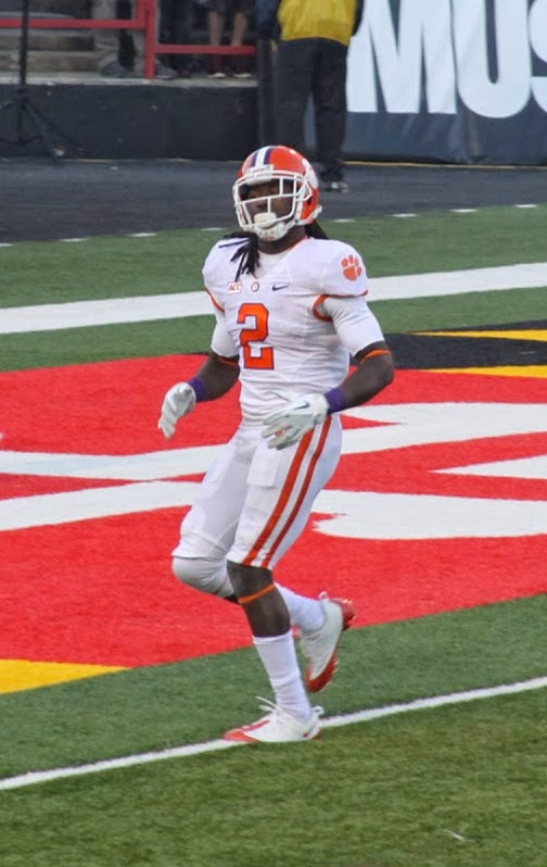 Sammy Watkins during a 2013 game vs. the Maryland Terrapins.